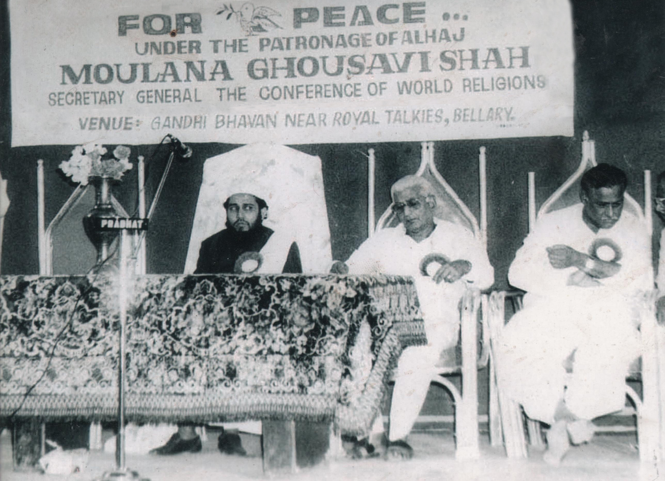 Peace meet organized by Moulana Ghousavi Shah(Secretary General: The Conference of World Religions)